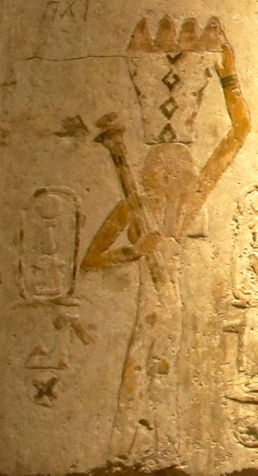 Personified agricultural estate of pharaoh Neferirkare represented on the walls of the tomb of Sekhemnefer III. Museum of the University of Tübingen.